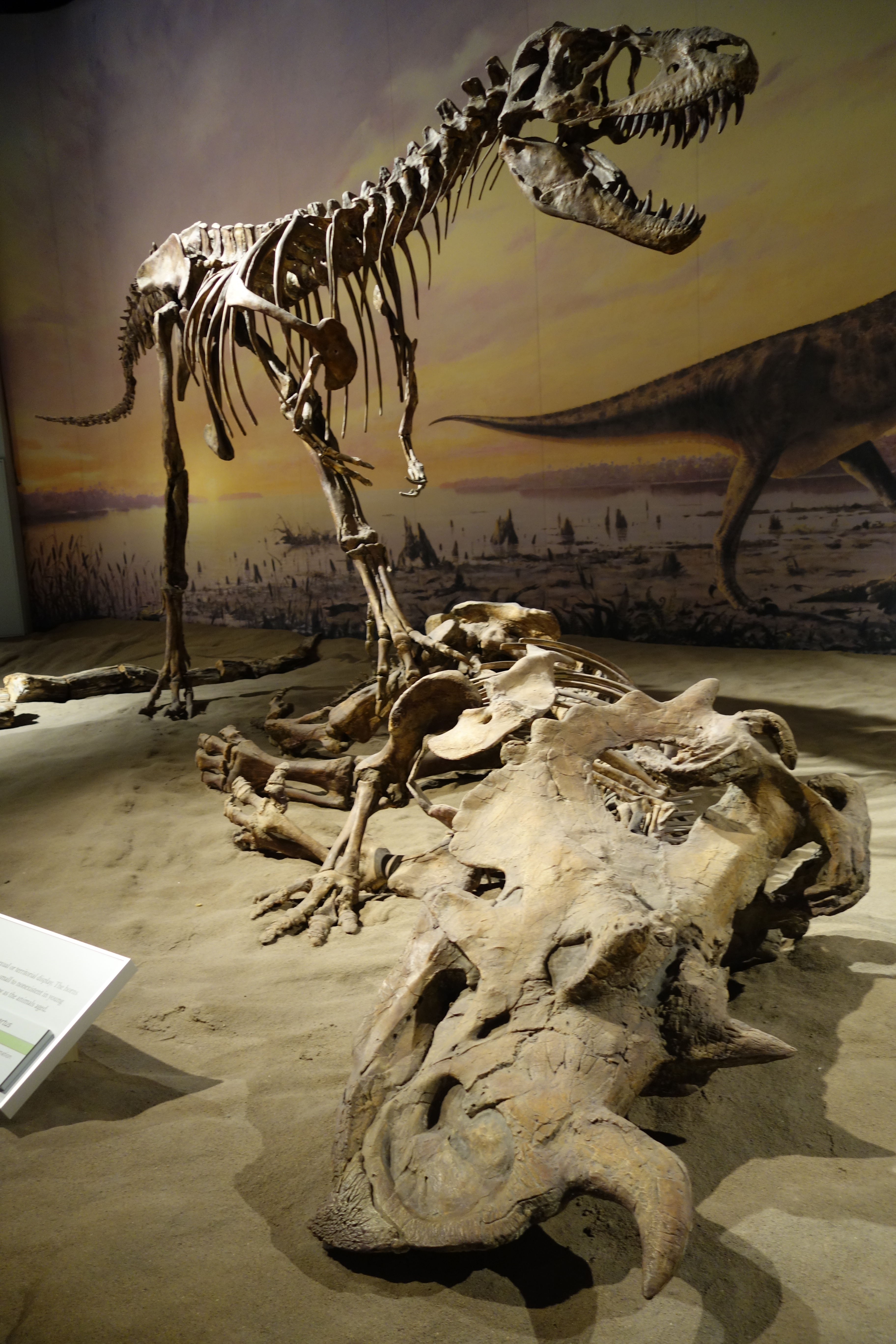 Dinorama showing Gorgosaurus and Centrosaurus. On display at the Royal Tyrrell Museum, Alberta.